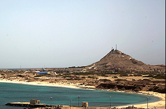 Abu Musa beach and Halva mountain